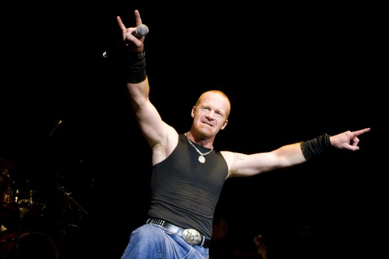 Matt Barlow performing with Iced Earth in São Paulo, Brasil.